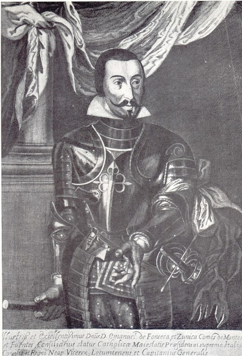 Manuel de Acevedo y Zúñiga viceroy of Naples